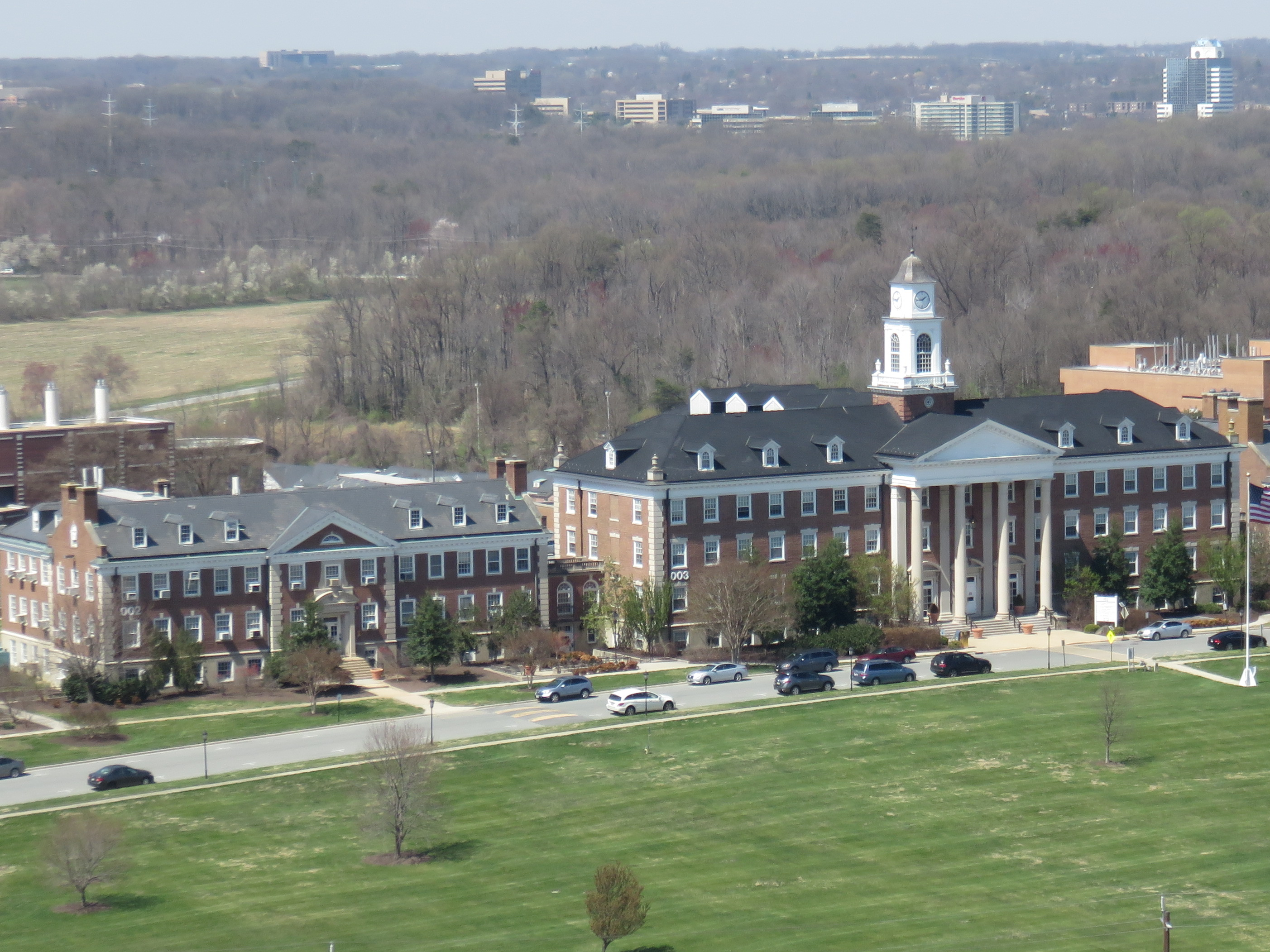 Henry A. Wallace Beltsville Agricultural Research Center in Beltsville, Maryland, viewed from the top floor of the United States National Agricultural Library in 2018